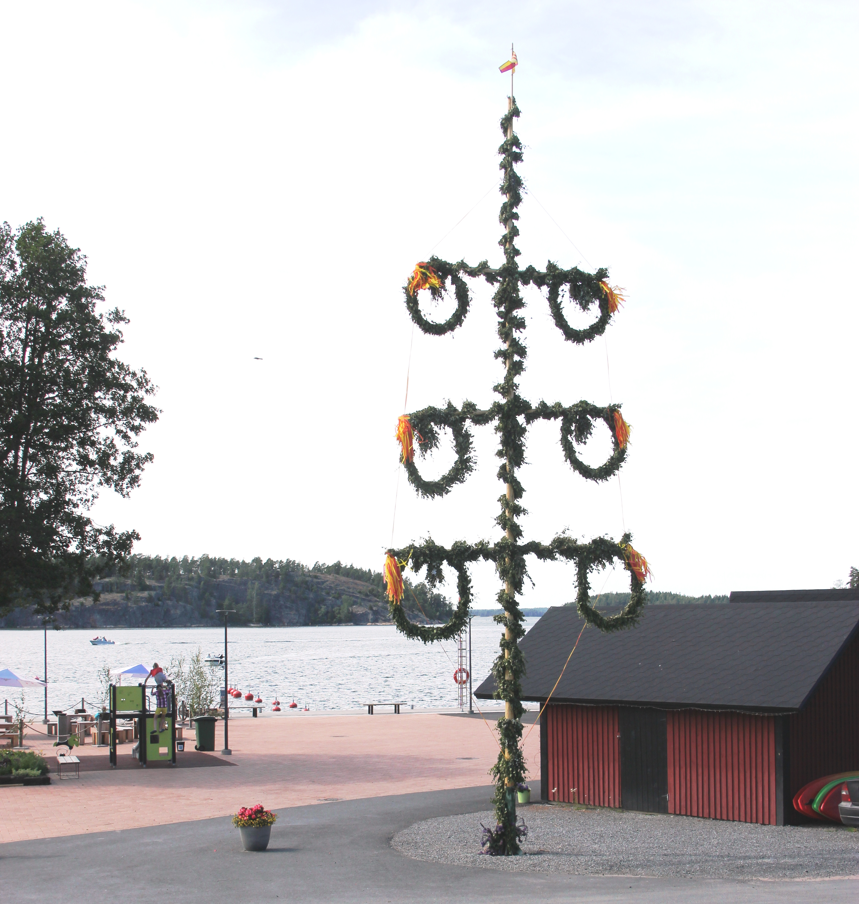 The village road near the harbour in Bromarv, Finland. An old Opel Kadett driving from the harbour.